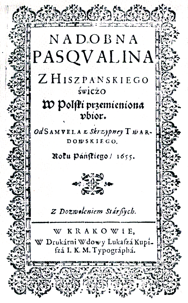 First page of the "Nadobna Paskwalina" by Samuel Twardowski (1600-1661), published in 1655.